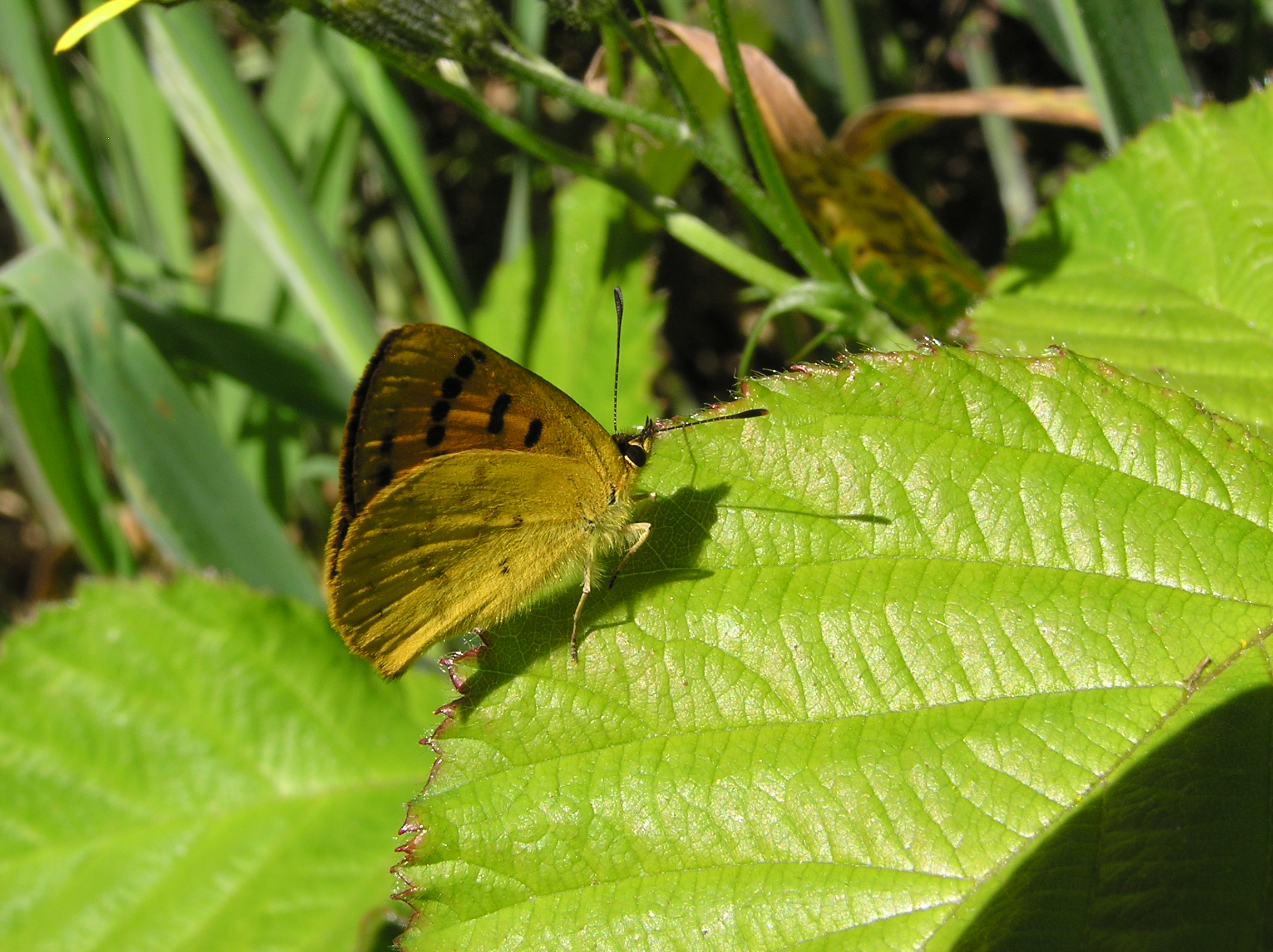 Common Copper butterfly, female, underwing detail. Wellington, New Zealand. Māori: Pepe Para Riki